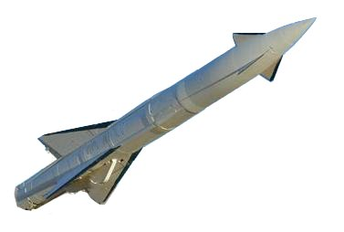 XMIM-115A of the United States.